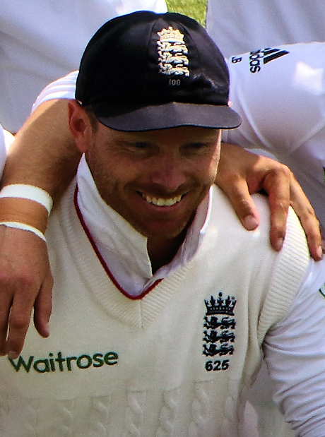 England Cricket Team - The Ashes Trent Bridge 2015